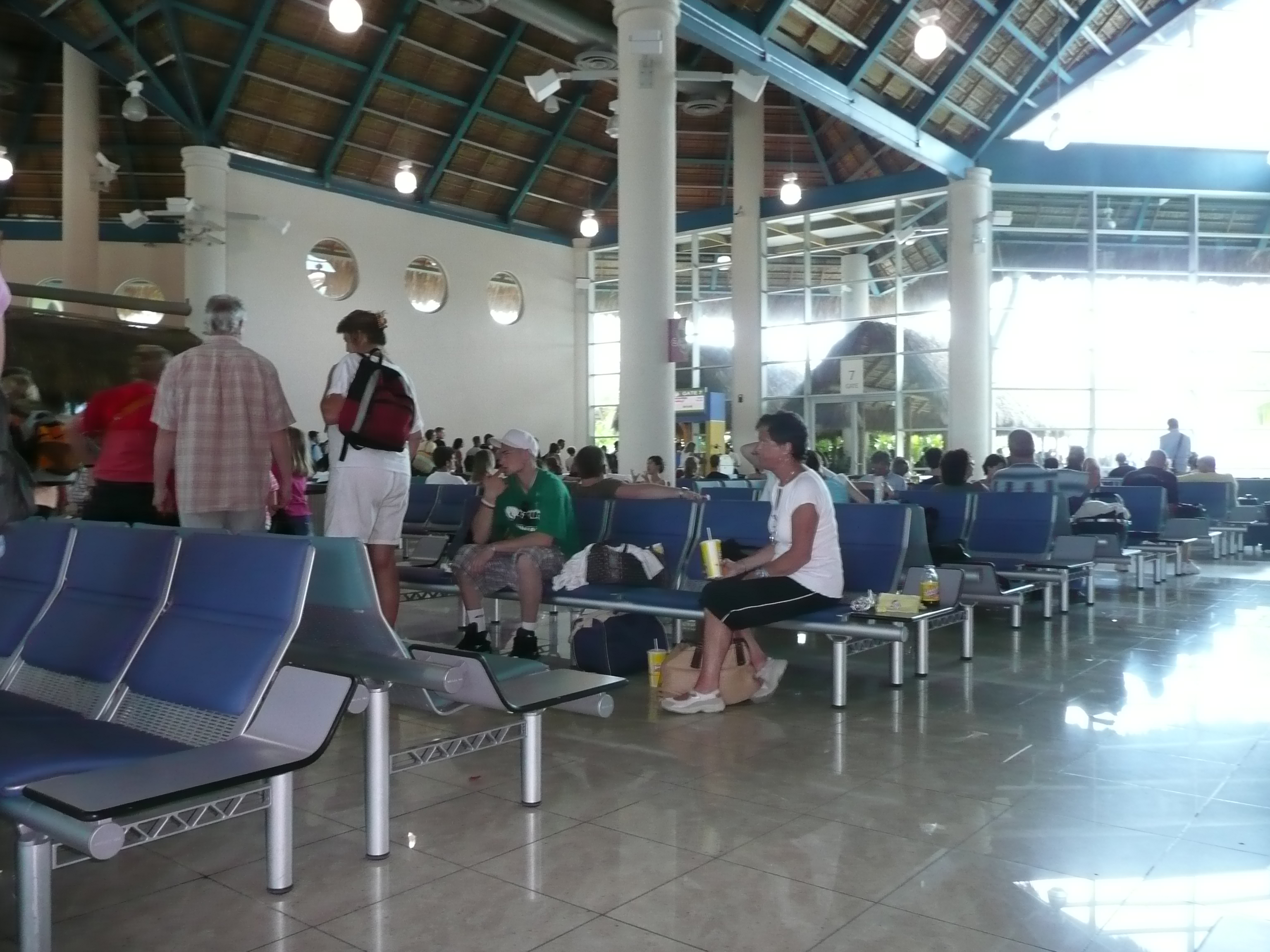 View of the Terminal Two departure lounge at Punta Cana International Airport, Dominican Republic.